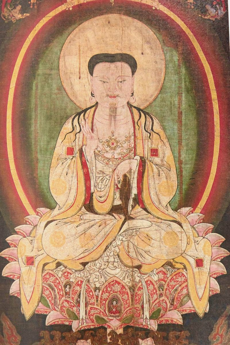 Icon of Mani depicted on a hanging scroll, southern China, 14th/15th century. Discovered in 2019 by the professor Yutaka Yoshida in the Fujita Art Museum, Osaka, Japan.